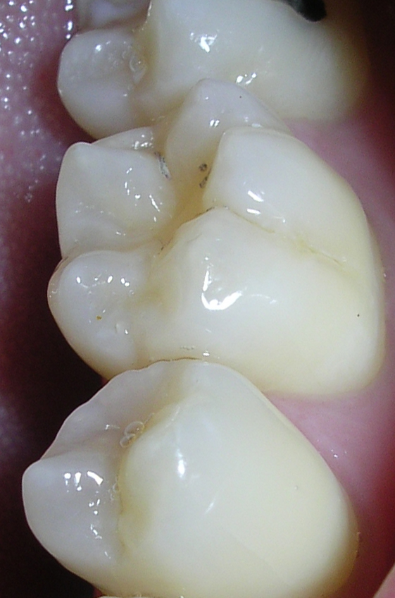 Photo taken of mandibular left first molar on August 15, 2006. Source: Photo taken by dozenist